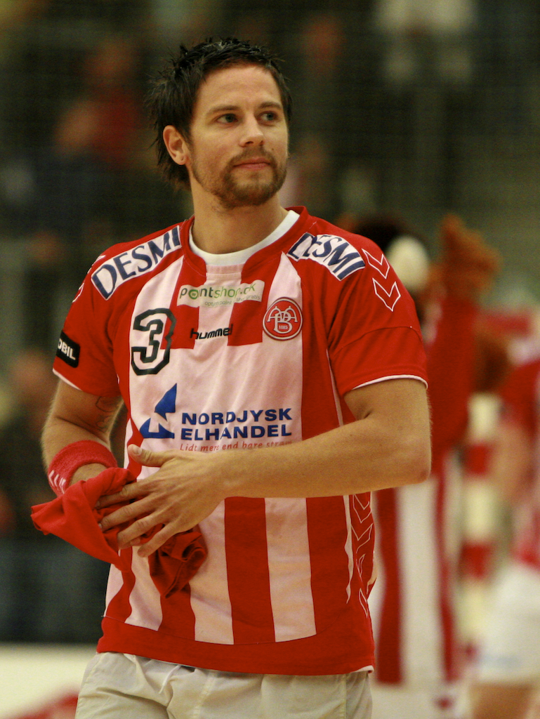 Rasmus Wremer from AaB Handball.